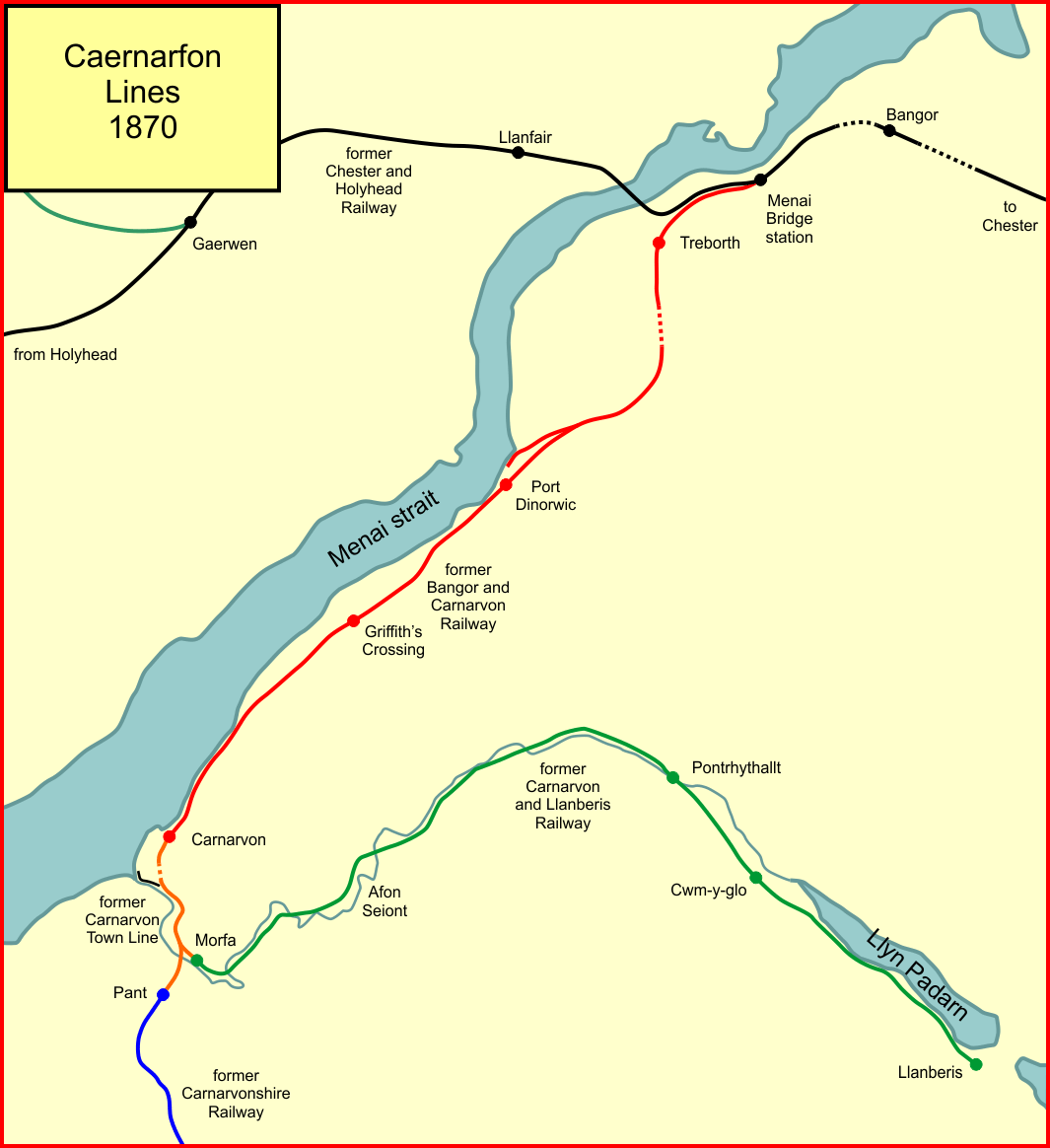 Diagram of railway branch lines around Caernarfon, north-west Wales, in 1870